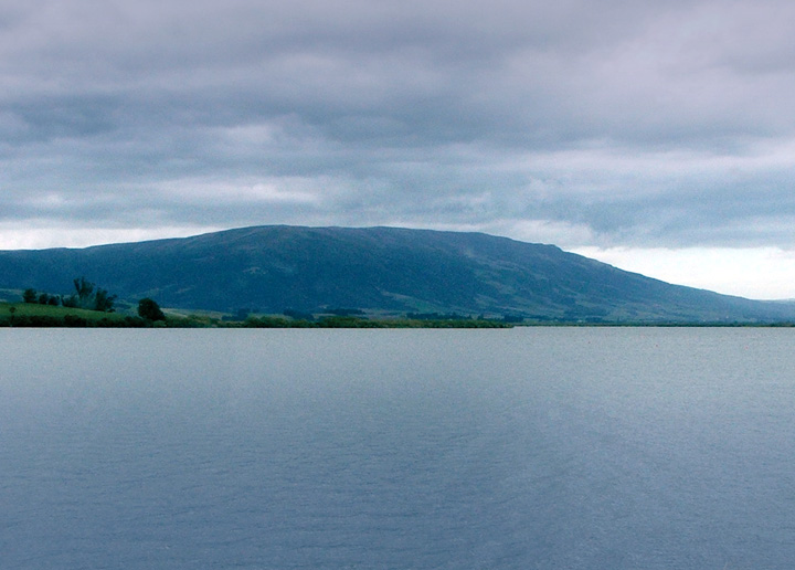 Maungatua, New Zealand, from the shore of Lake Waihola. Photographed in January 2006